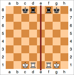 This chess diagram shows all possible king-rook positions after a successful castling.